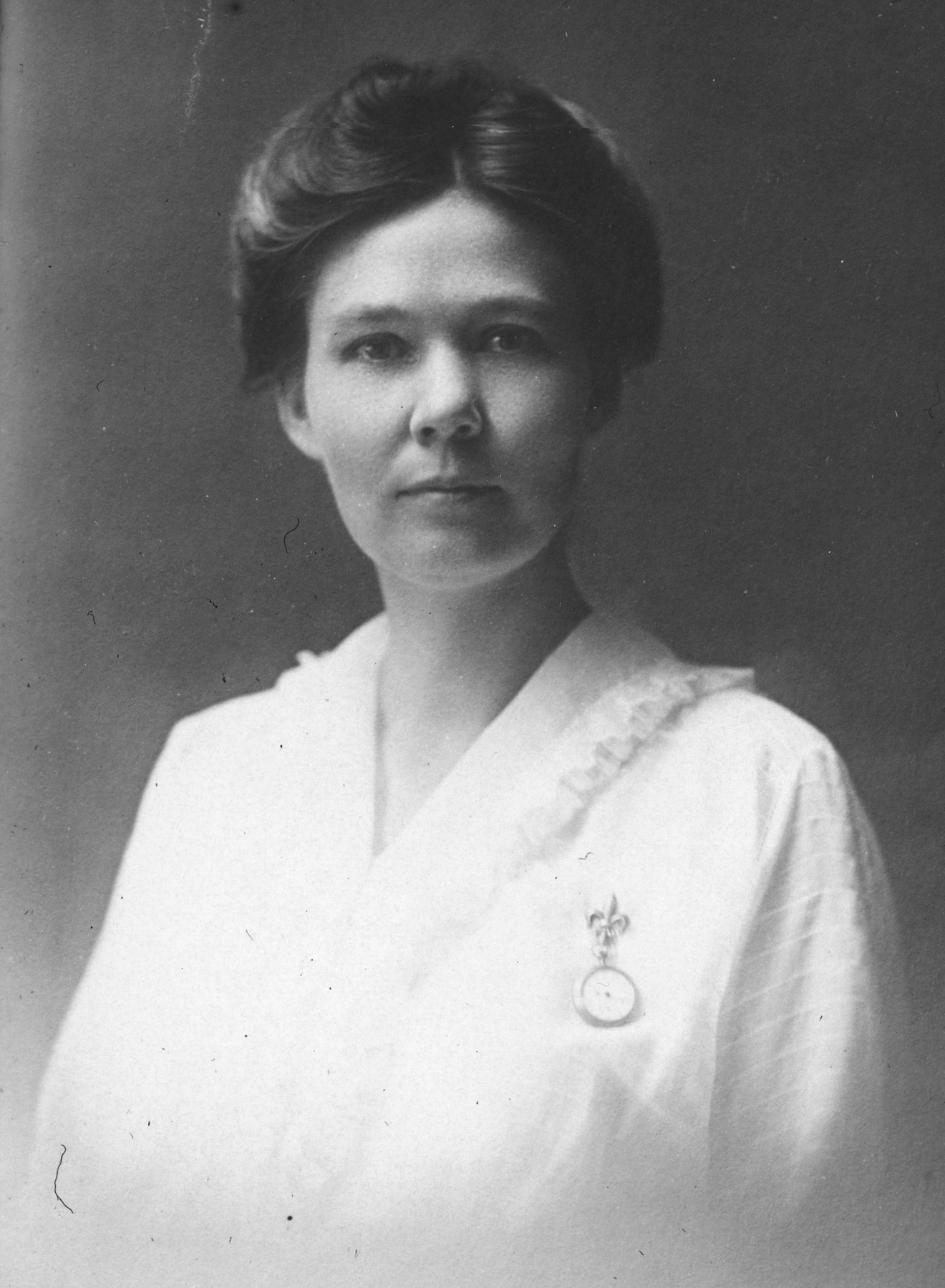 Plant pathologist Mary Katherine Bryan (b. 1877) was educated at Stanford University (A.B., 1908) and worked in the Bureau of Plant Industry, U.S. Department of Agriculture, 1909-1934, and the University of California, where she did important work on tomato canker and similar diseases. Crop of this original.